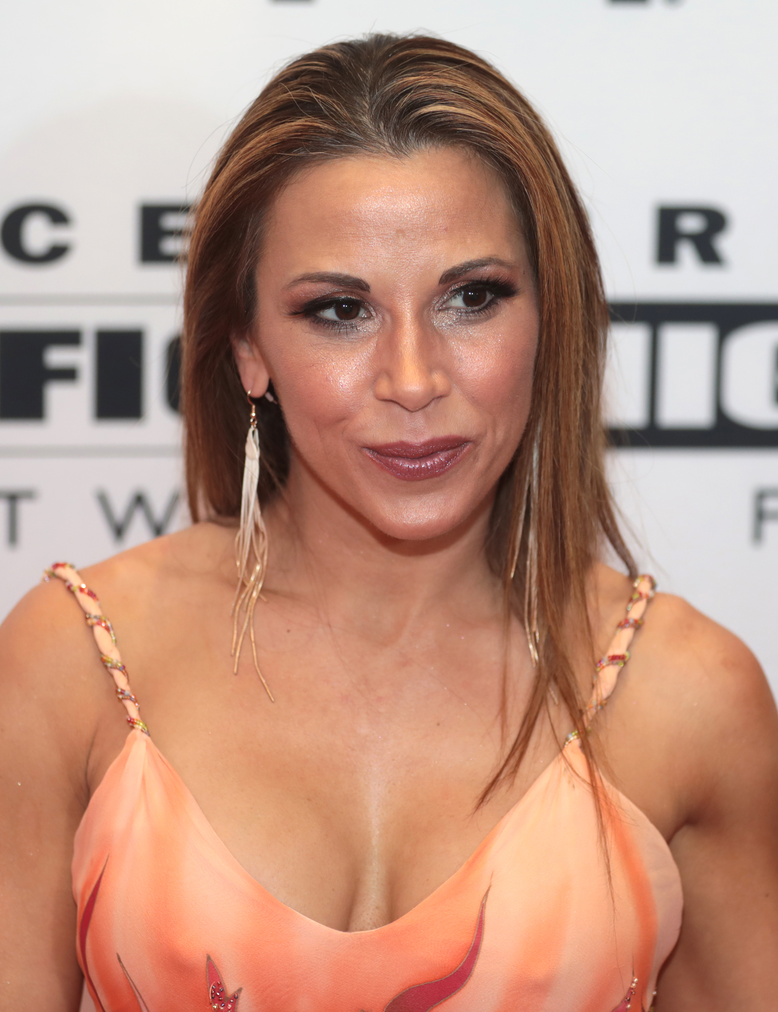 Mickie James at Celebrity Fight Night XXV in Phoenix, Arizona.